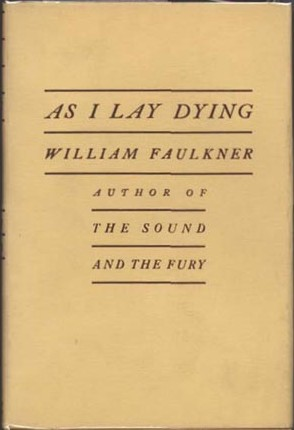 First edition cover of As I Lay Dying (novel)